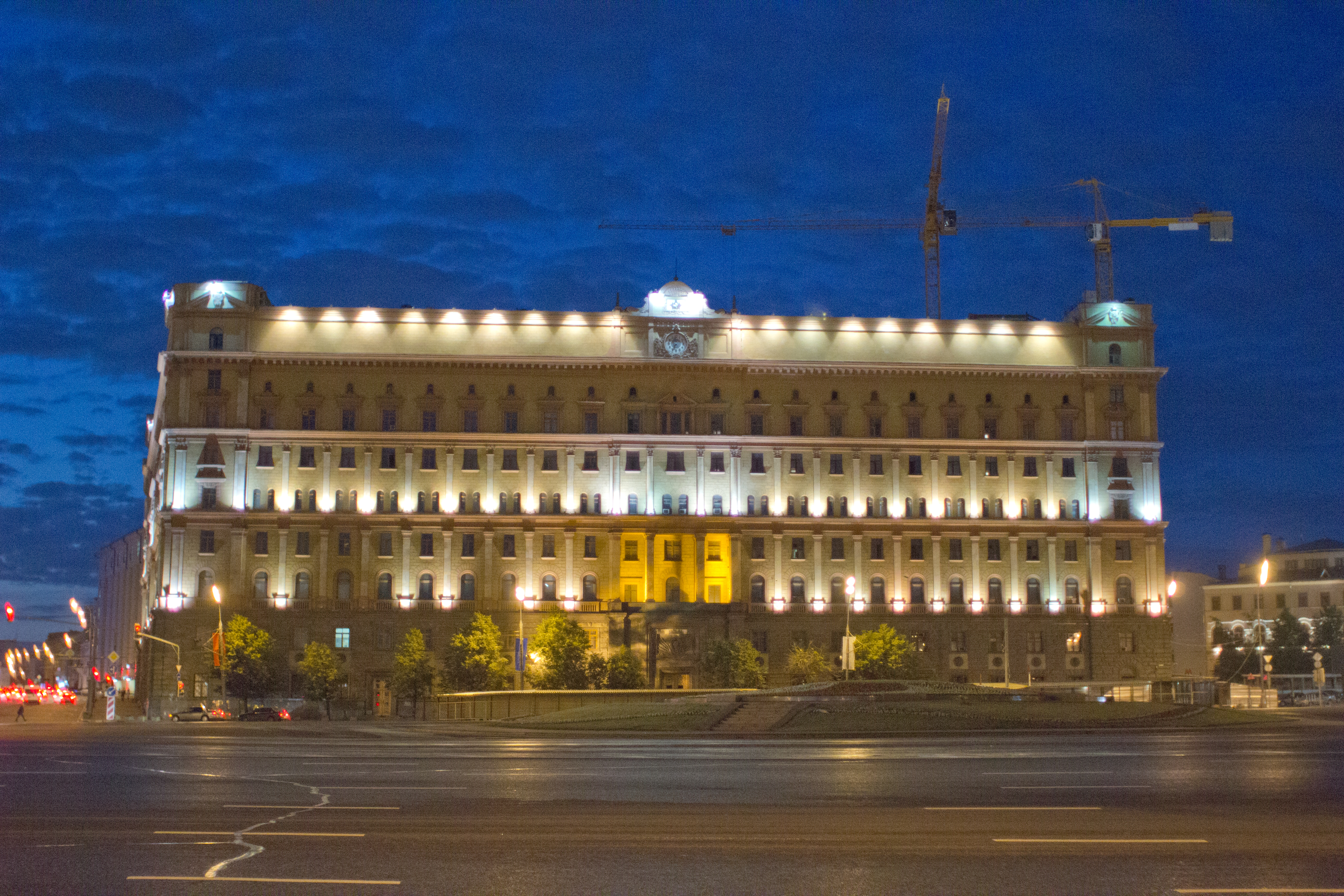 Russia